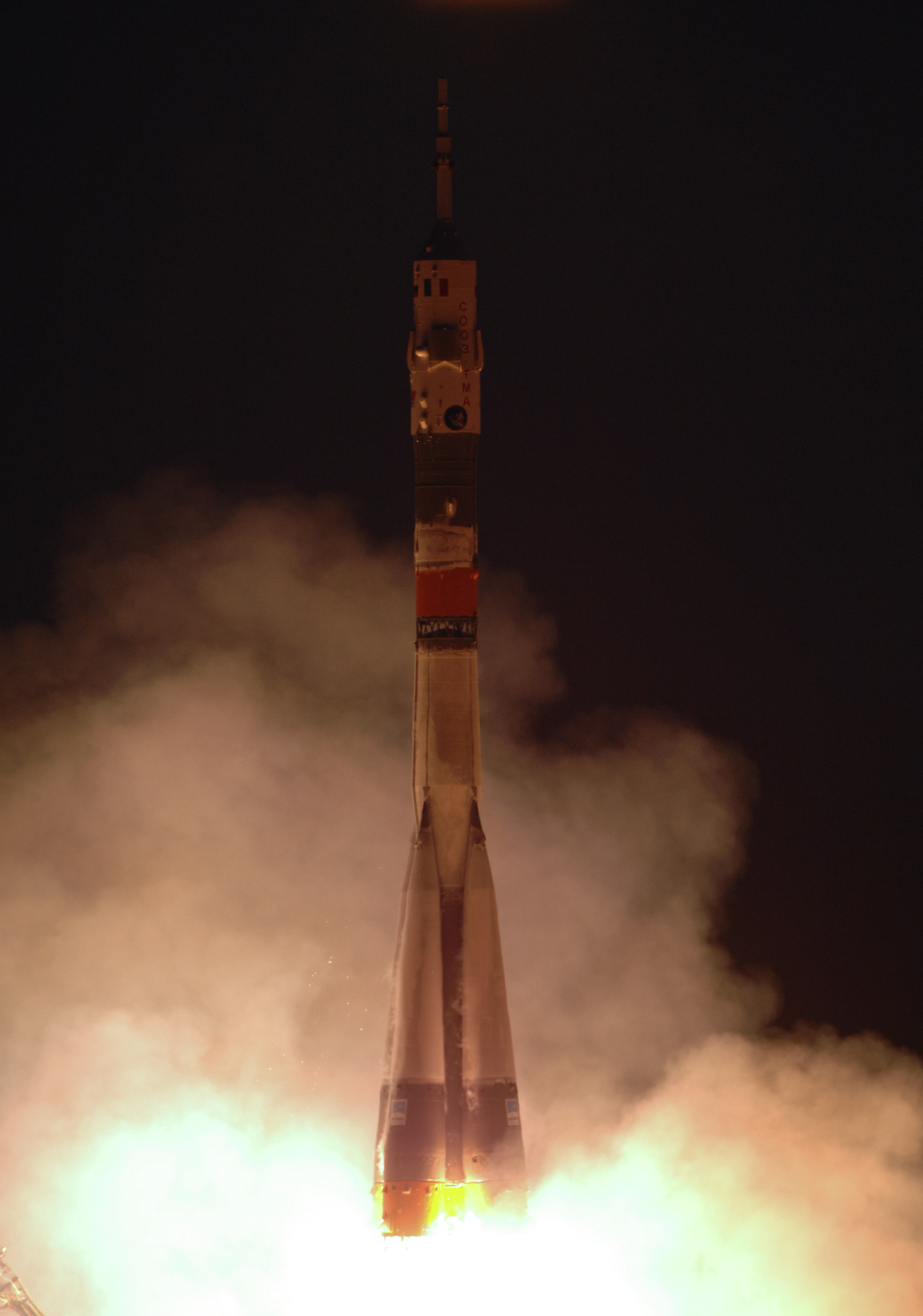 A Russian Soyuz spacecraft blasts off from the Baikonur Cosmodrome in Kazakhstan on Thursday, April 14, en route to the International Space Station with a crew of three on board. The Expedition 11 crew -- Sergei Krikalev and John Phillips -- will spend six months in space and greet the first Shuttle crew to fly in more than two years when it arrives at the Station. European Space Agency astronaut Roberto Vittori will spend eight days on the Station and return with Expedition 10 astronauts Leroy Chiao and Salizhan Sharipov.